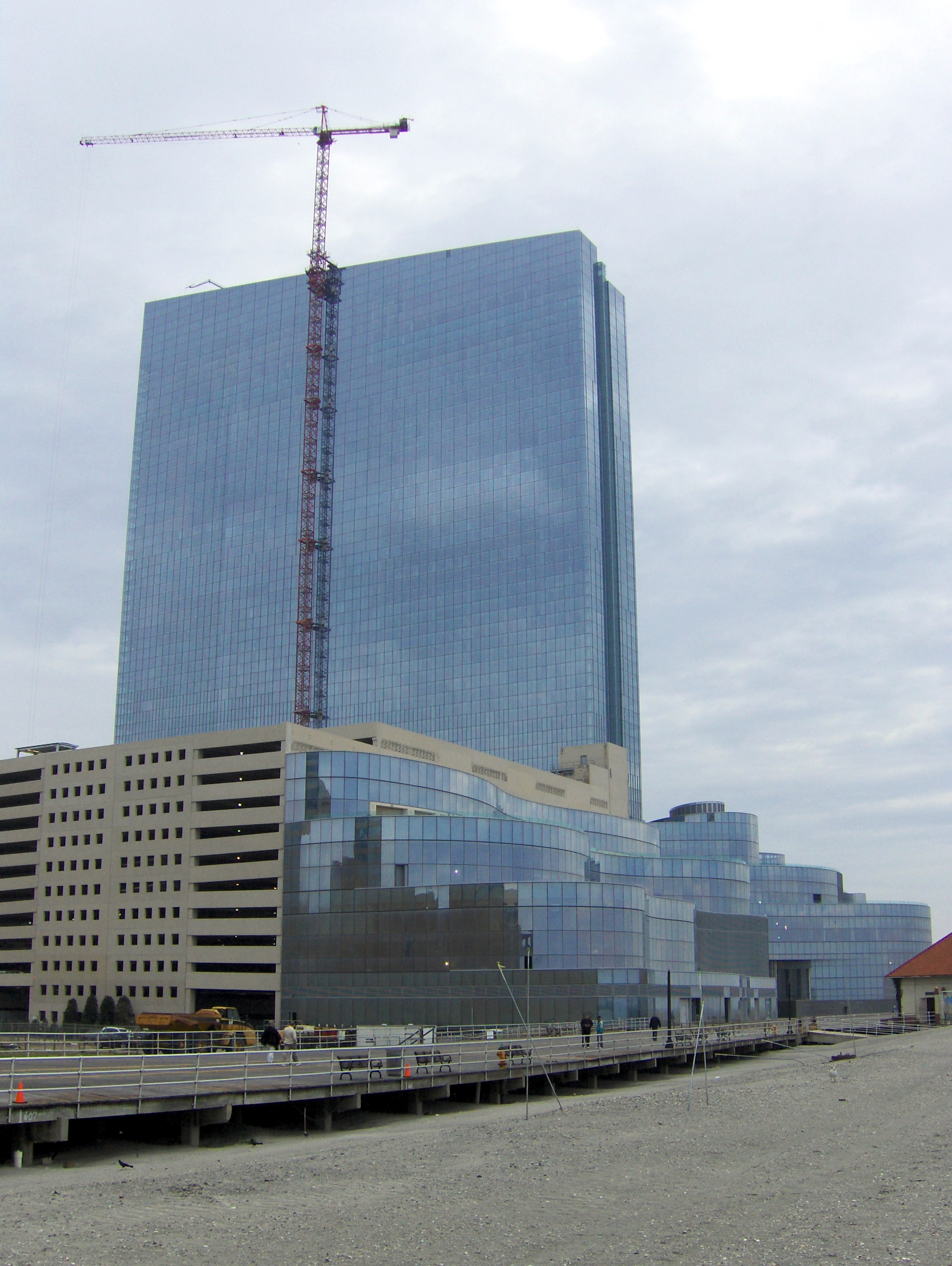 View of the Revel Atlantic City Resort Property under construction, photographed Thursday, October 27th, 2011.